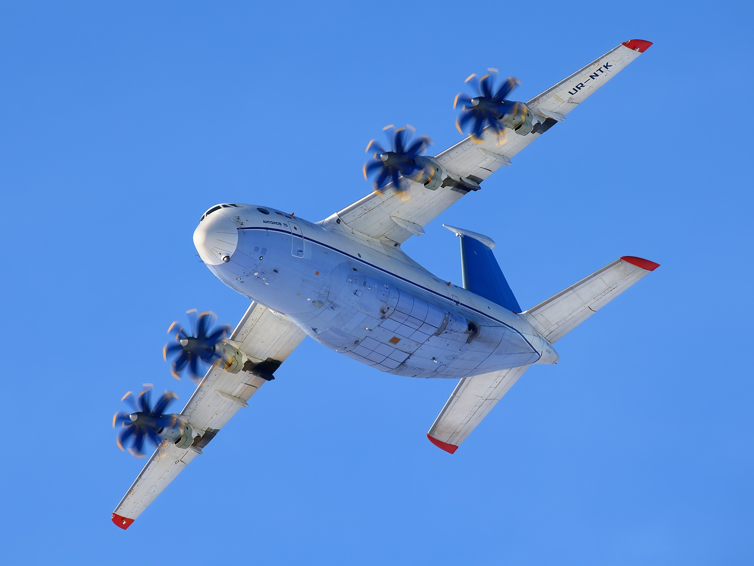 Modernized An-70 is under testing